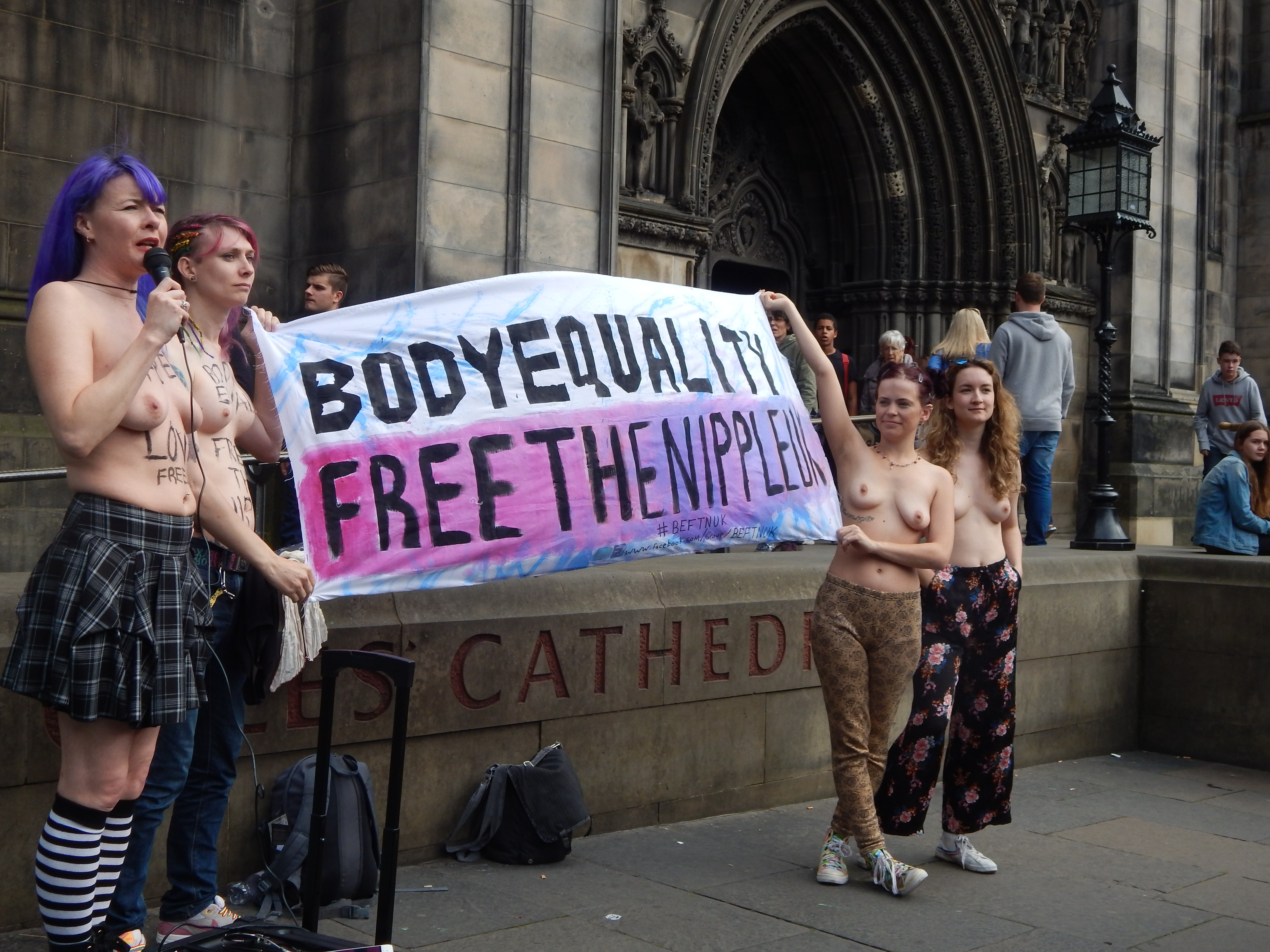 Free the Nipple Protest at Fringe 2017 Festival in Edinburgh